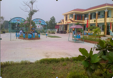 very good